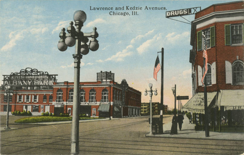 Lawrence And Kedzie Avenues, Chicago, Illinois